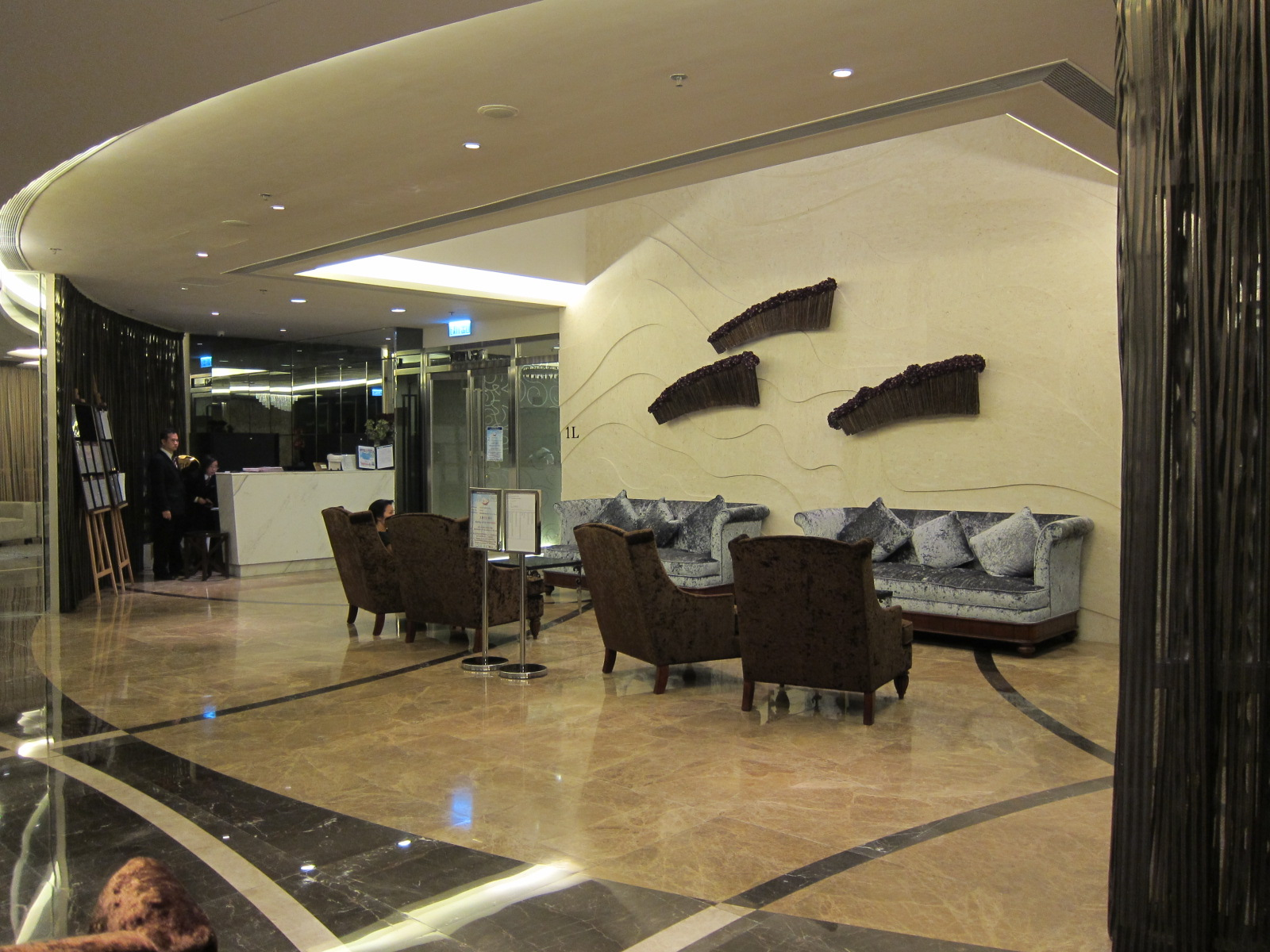 Le Prestige